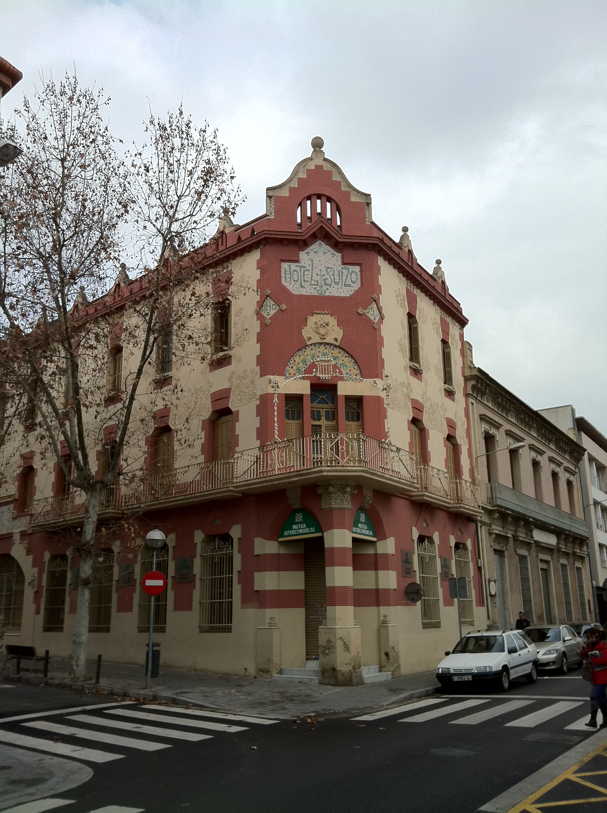 Swiss Hotel in Sabadell, Catalonia